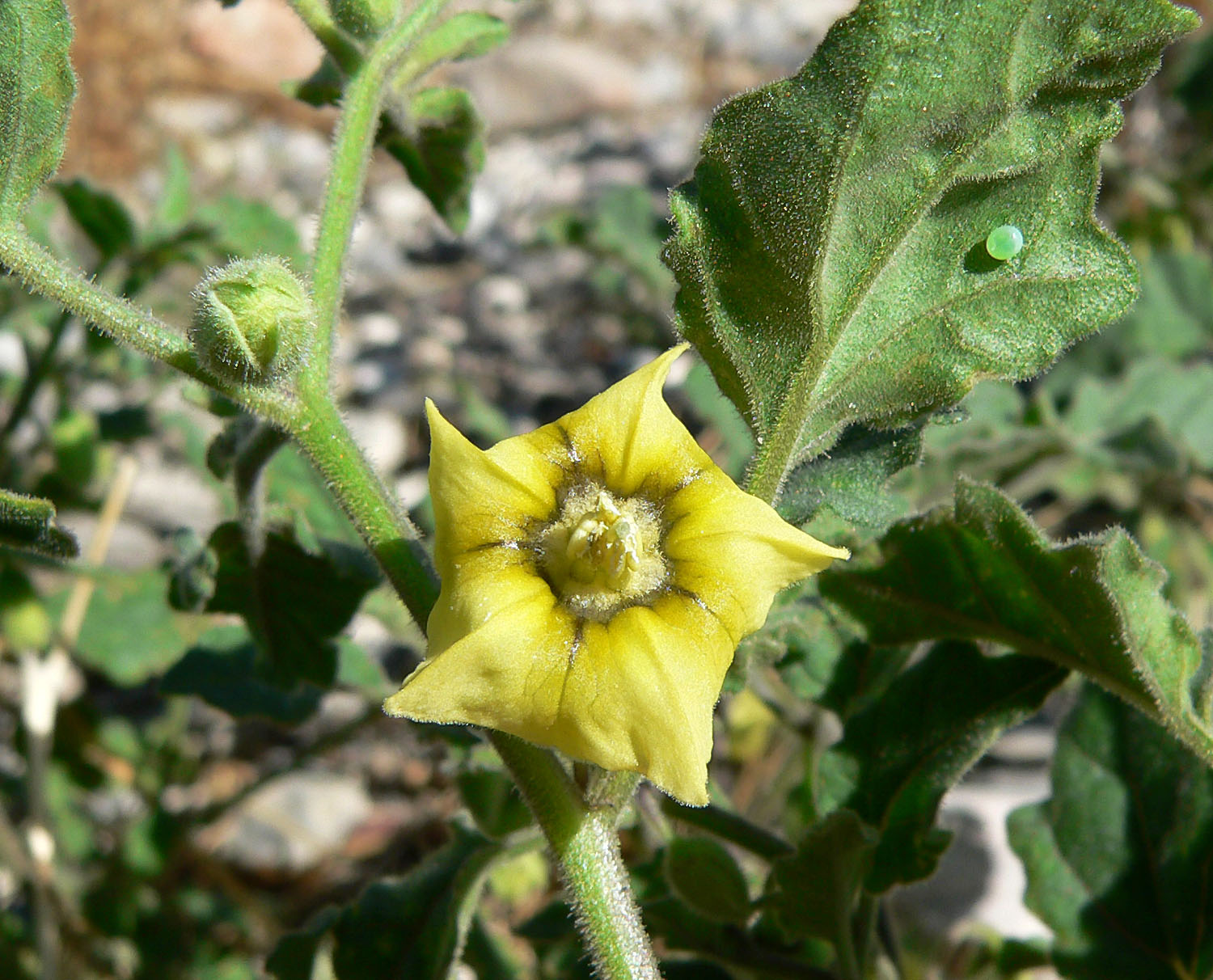 Physalis hederifolia var. palmeri alongside the Kyle Canyon Road about 4 km east of the junction with 158, Kyle Canyon, Spring Mountains, southern Nevada (elev. about 1800 m)